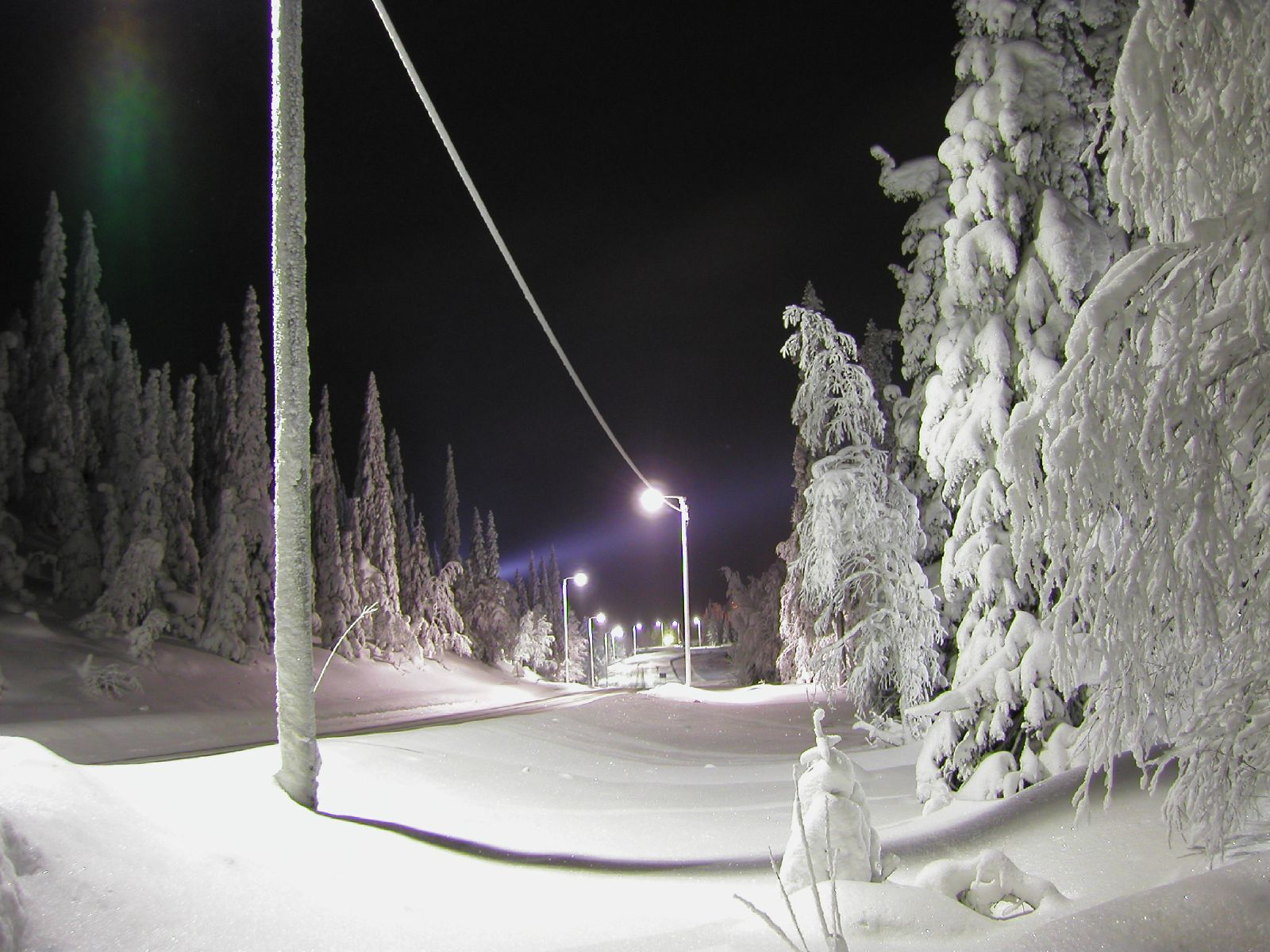 Snowy Rukajärventie road (local road 18884) in Ruka, Kuusamo, Finland